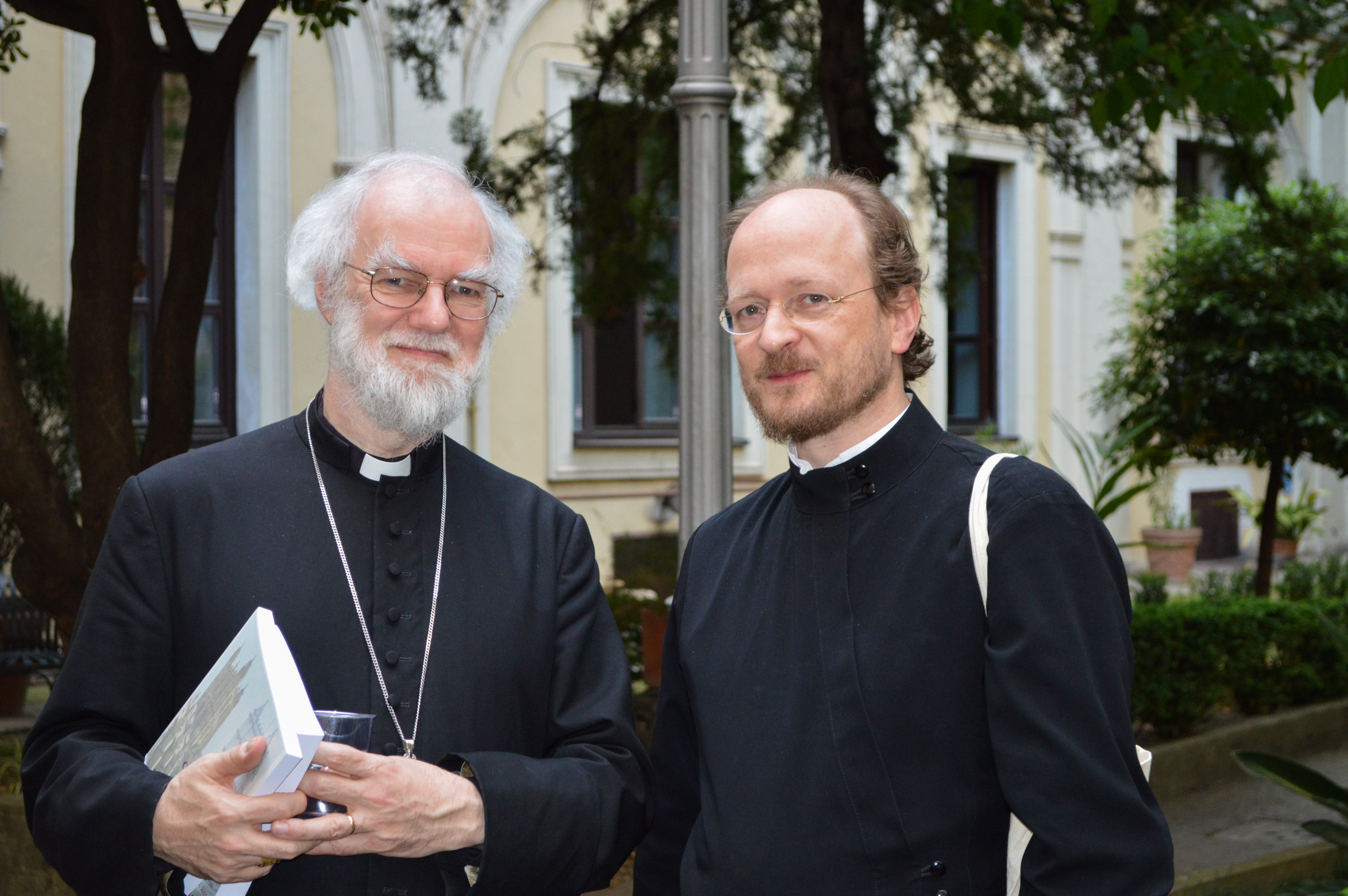 Donahue Chair 2016